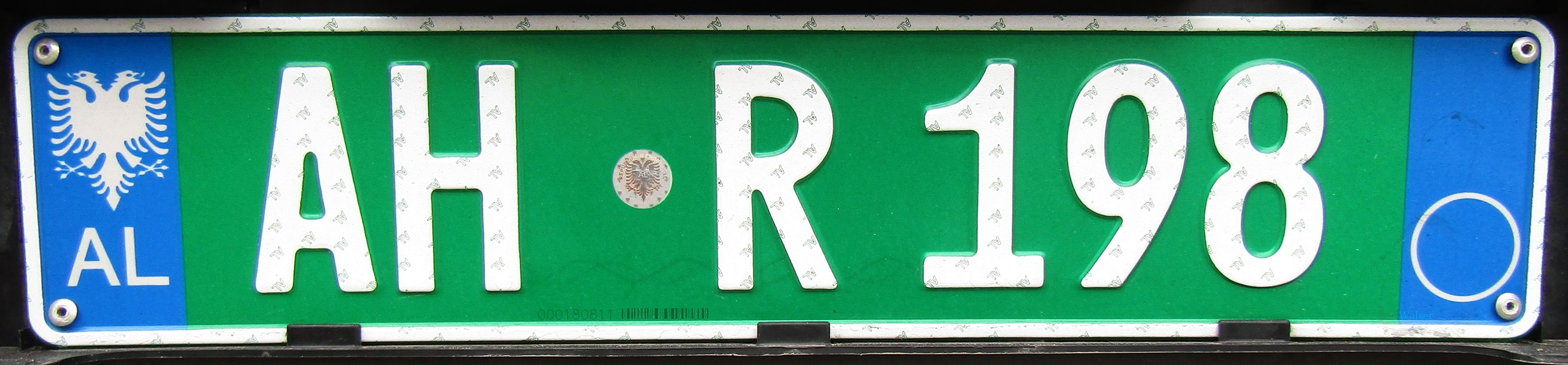 2020 Albania Trailer plate